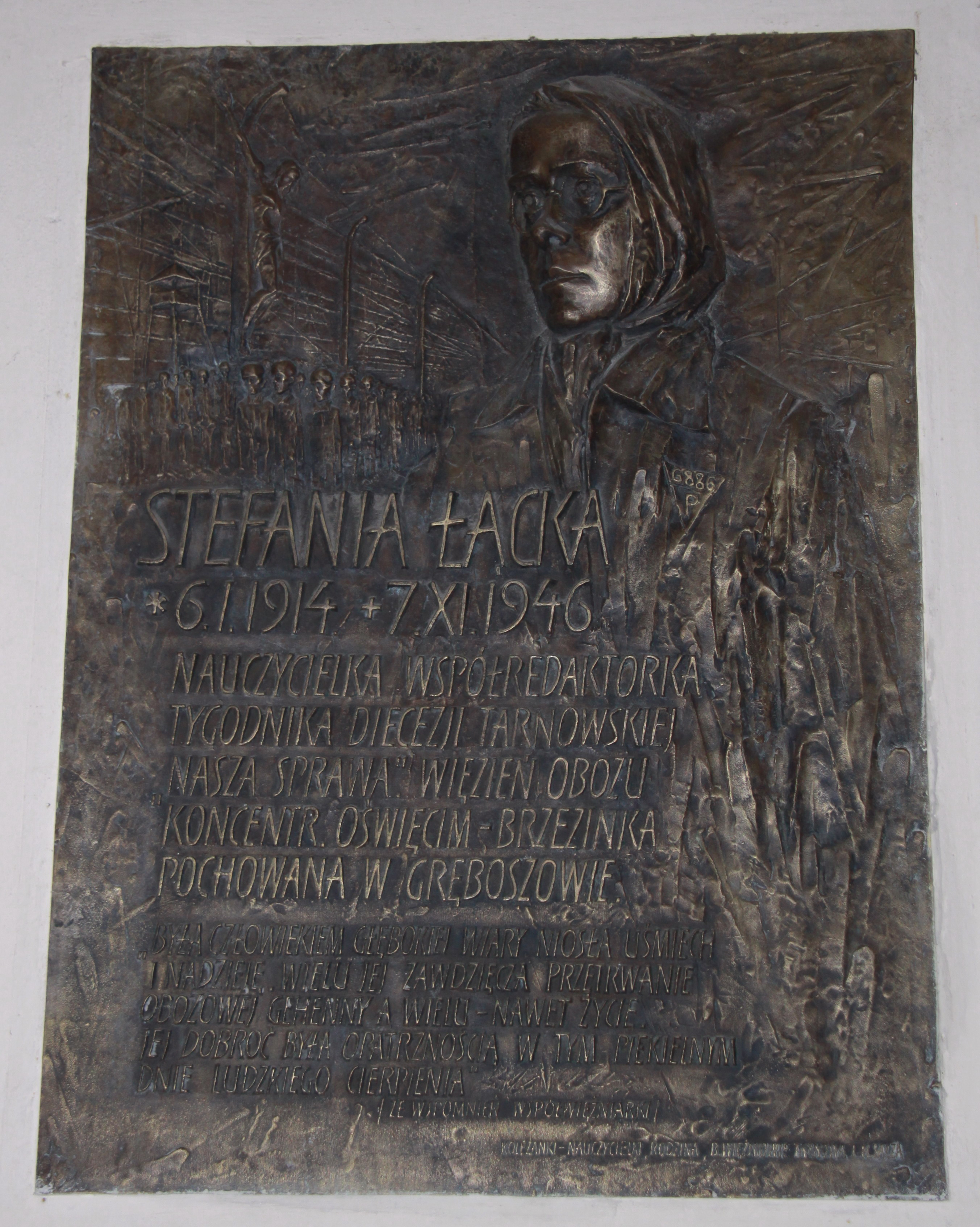 Epitaph of Stefania Łącka (1914-1946) in parish church in Gręboszów.